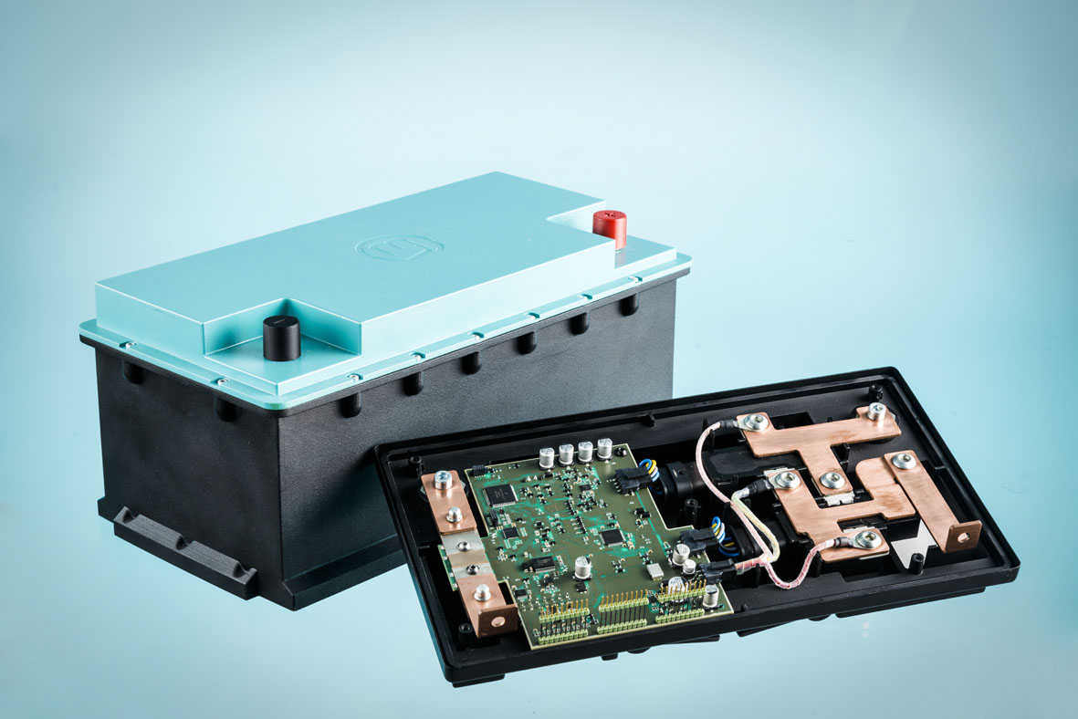 Marquardt Batterysteme